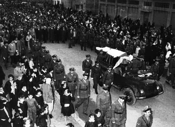 The state funeral procession of Hashim al-Atassi in Damascus